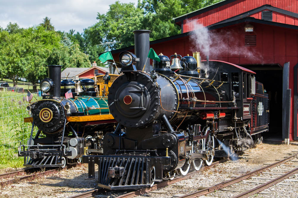 Two locomotives of the Whiskey River Railway, an attraction at Little Amerricka in Marshall, Wisconsin, are being readied for a day of service on the railway.